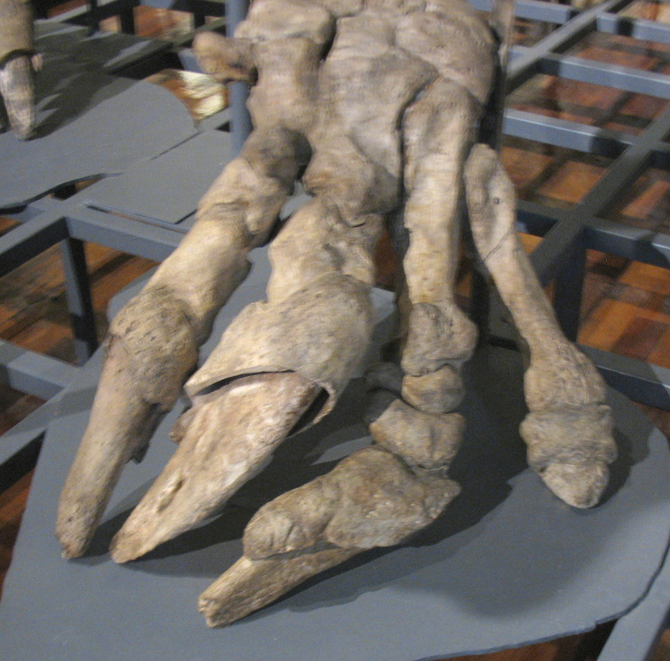 Megatherium americanum: left forepaw. National Museum of Natural Sciences of Spain, Madrid.